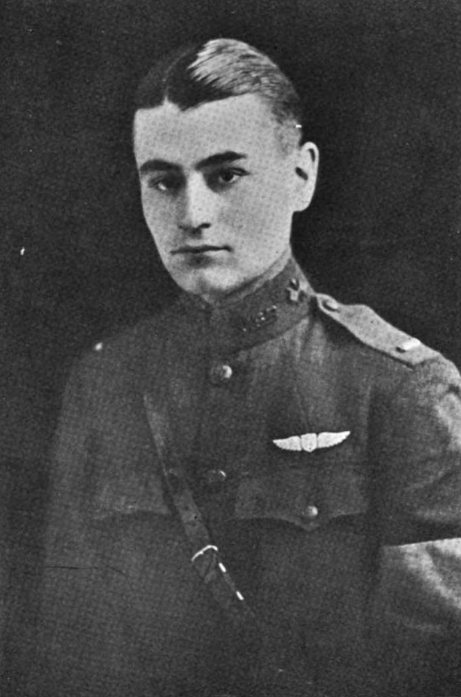 Portrait of First Lieutenant John Lavalle from New England Aviators 1914-1918, Volume 1, 1919, page 281